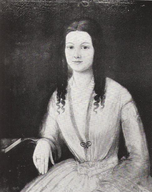 Portrait of Sarah Knox Taylor (1814-1835)